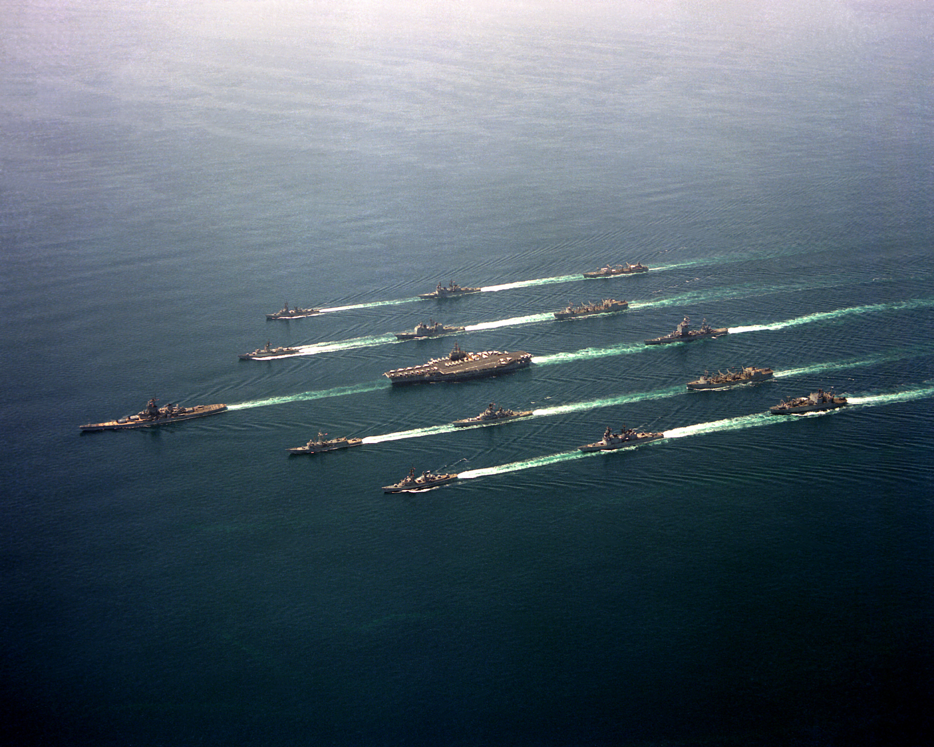 An aerial view of the U.S. Navy Battle Group Echo underway in formation in the northern Arabian Sea on 1 November 1987. The ships are, from the top, right to left, Row 1: fleet oiler USNS Hassayampa (T-AO-145), destroyer USS Leftwich (DD-984), guided missile destroyer USS Hoel (DDG-13); Row 2: fleet replenishment oiler USS Kansas City (AOR-3), guided missile cruiser USS Bunker Hill (CG-52), frigate USS Robert E. Peary (FF-1073); Row 3: guided missile cruiser USS Long Beach (CGN-9), aircraft carrier USS Ranger (CV-61), battleship USS Missouri (BB-63); Row 4: fleet replenishment oiler USS Wichita (AOR-1), guided missile cruiser USS Gridley (CG-21), guided missile frigate USS Curts (FFG-38); Row 5: ammunition ship USS Shasta (AE-33), destroyer USS John Young (DD-973) and guided missile destroyer USS Buchanan (DDG-14).